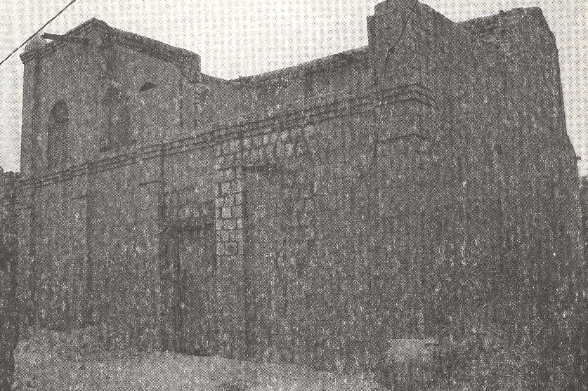 Photo taken in the early 1900's of the House and Synagogue im Timbuktu of Rabbi Mordechai Serour.